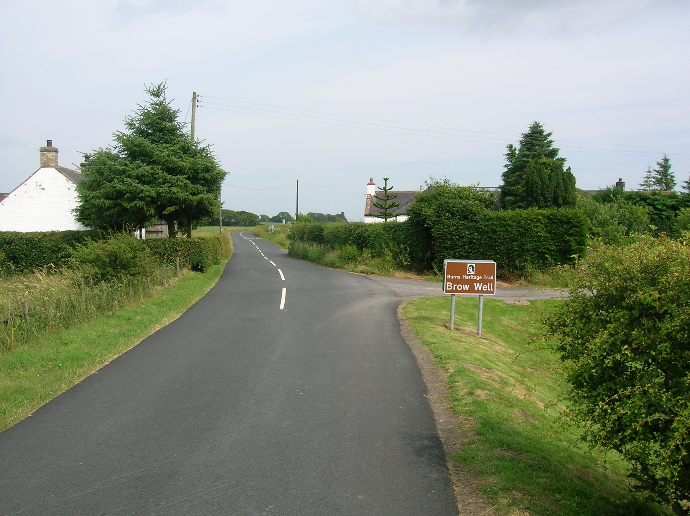 Brow from the Raffles Burn bridge Ruthwell, Dumfries & Galloway, Scotland.